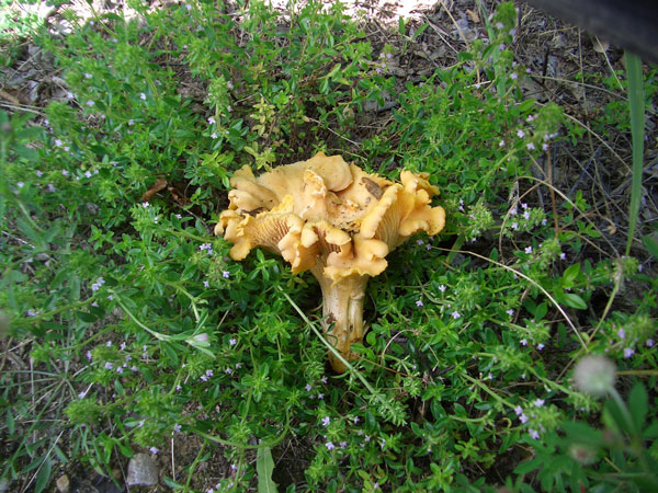 Cantharellus cibarius